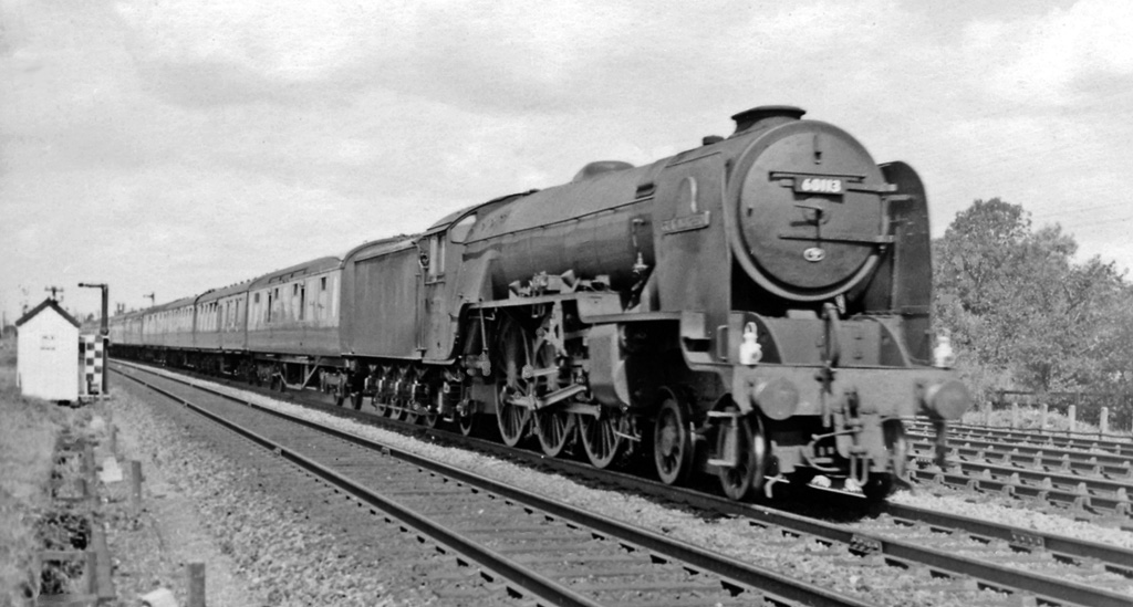 Up East Coast Main Line express at Walton, near Peterborough. View NW, towards Werrington Junction, Grantham and North, also Spalding, Boston and Grimsby; ex-GN ECML and Boston Loop line. On the left is Post Office mail exchange post. The ex-Midland line to Manton, Melton Mowbray etc. is running just off to the left and the crossing gates at the Midland Walton station can just be discerned. The express is the 09.10 Hull/09.40 York - King's Cross, headed by the pioneering Thompson A1 Pacific 60113 'Great Northern'.